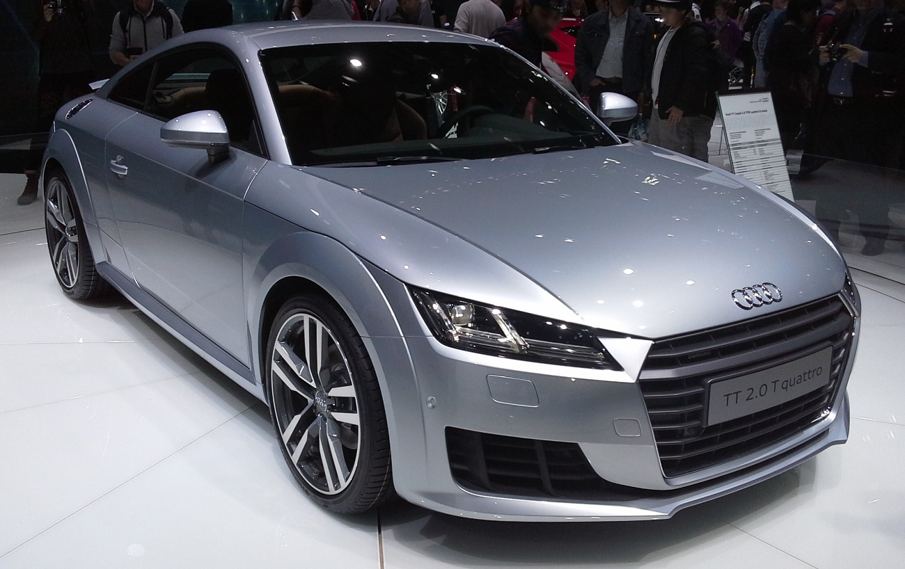 Audi TT 8S photographed at the 2014 Geneva Motor Show, Geneva, Switzerland.